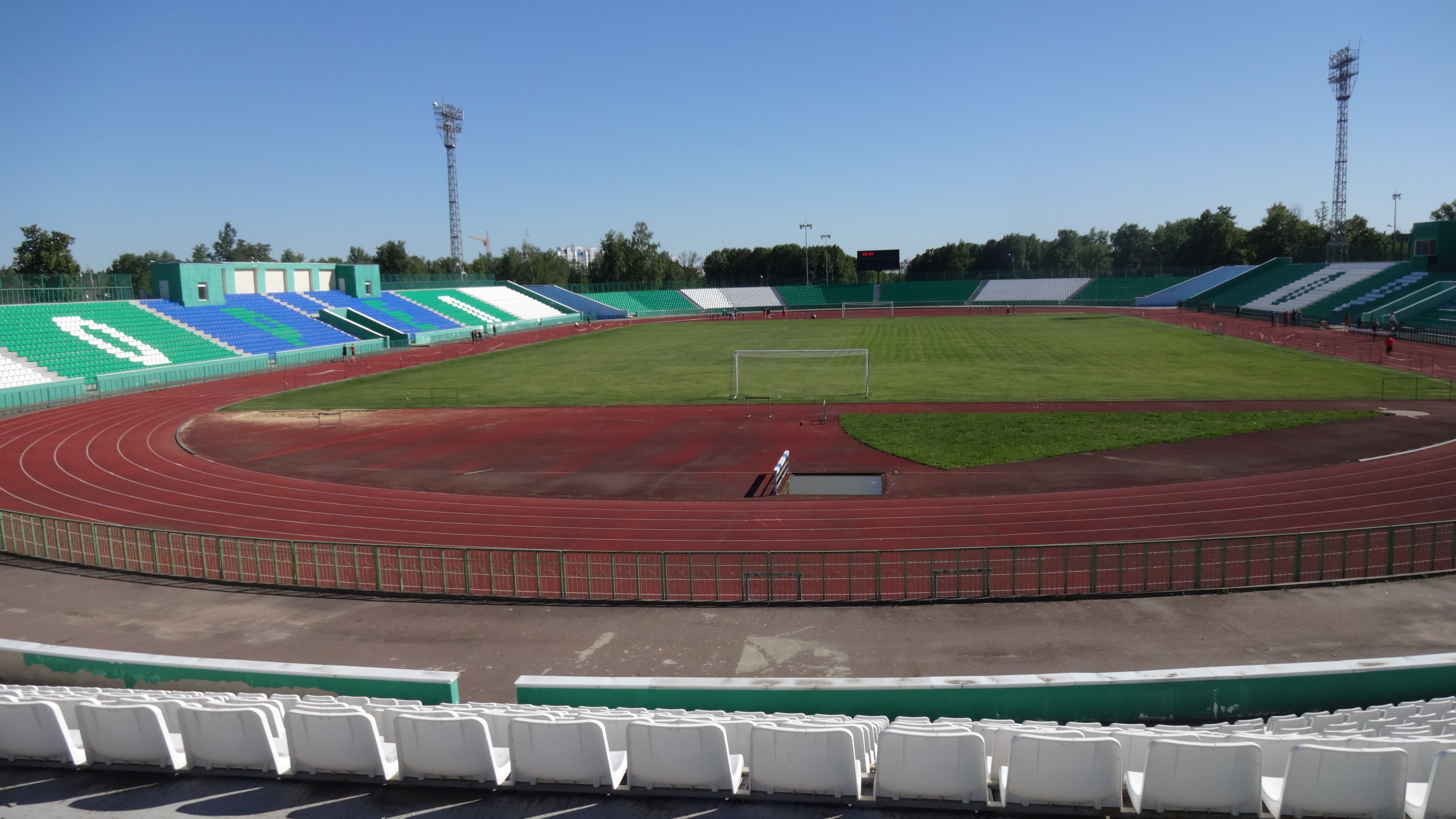 The Central Stadium of Oryol. Field.